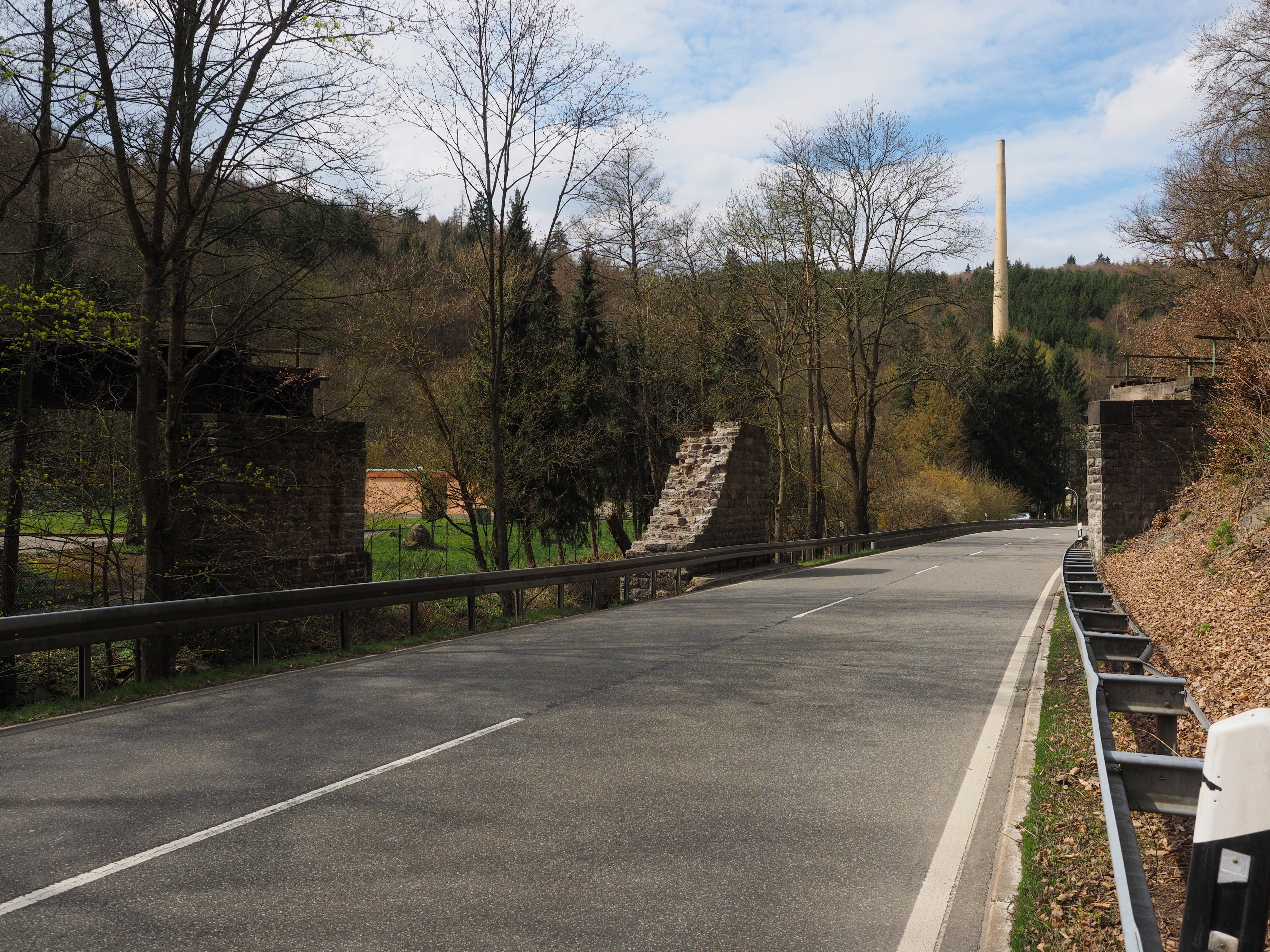 Partly dismantled rail bridge of Aartalbahn